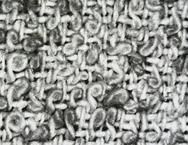 Close up view of towelling (tea towel) Image taken by uploader